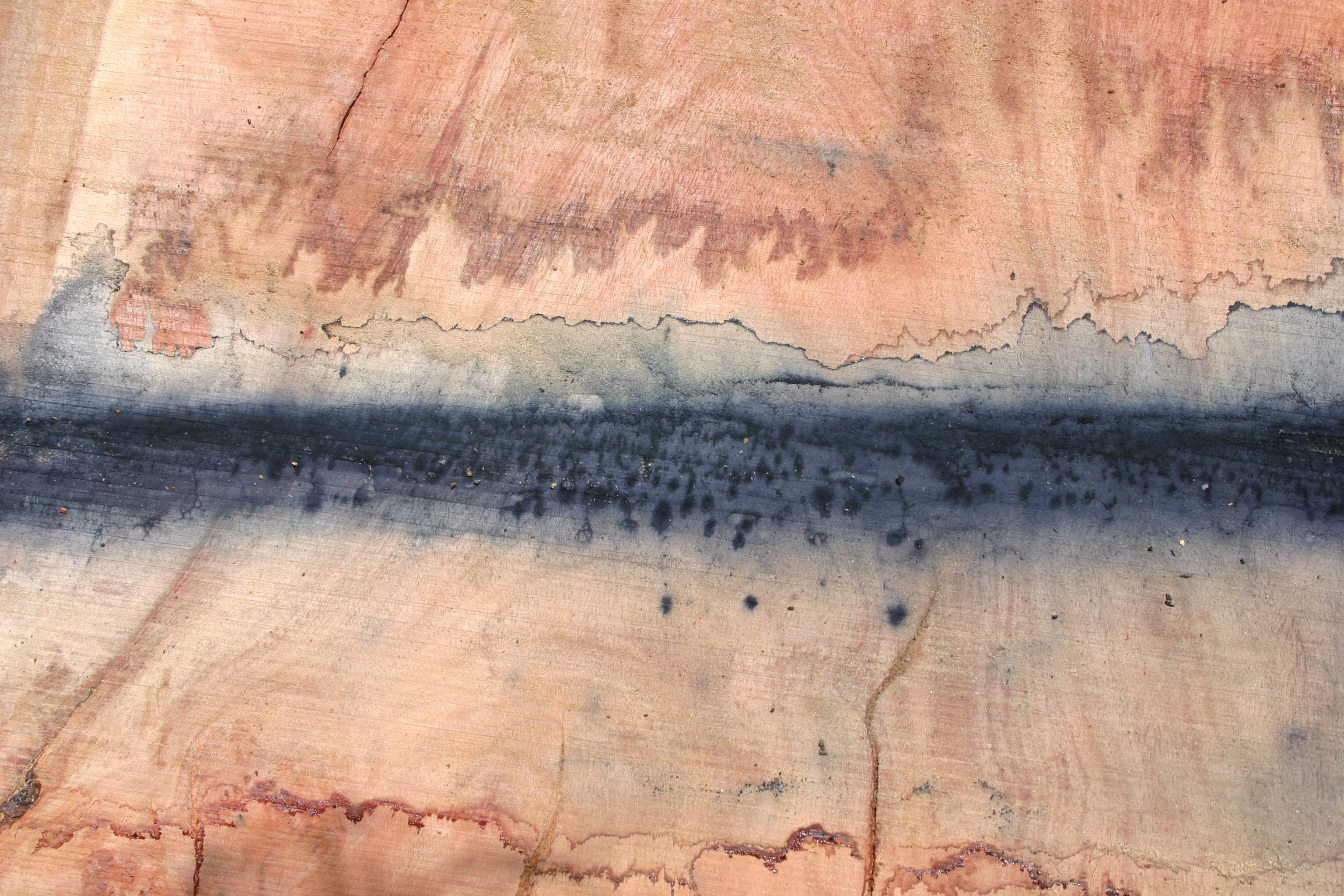 Thin-layer chromatography on the surface of a freshly-cut plank of Eucalyptus camaldulensis - the horizontal blue strip is from a reaction between the iron bandsaw supports and the acidic timber